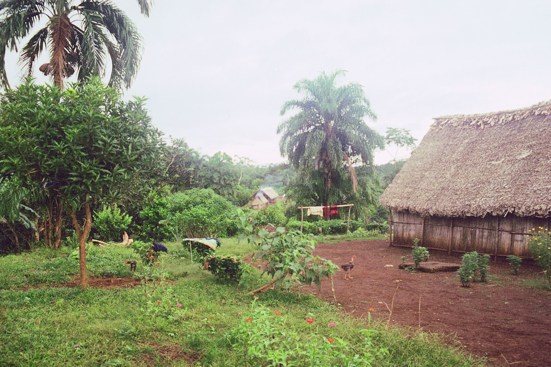 Paya is one of the few Guna (or Kuna) communities in the Darien Jungle at the Embera province of Panama. Inside the big hut the villagers hold both civic events and rituals where foreigners are strictly forbidden.